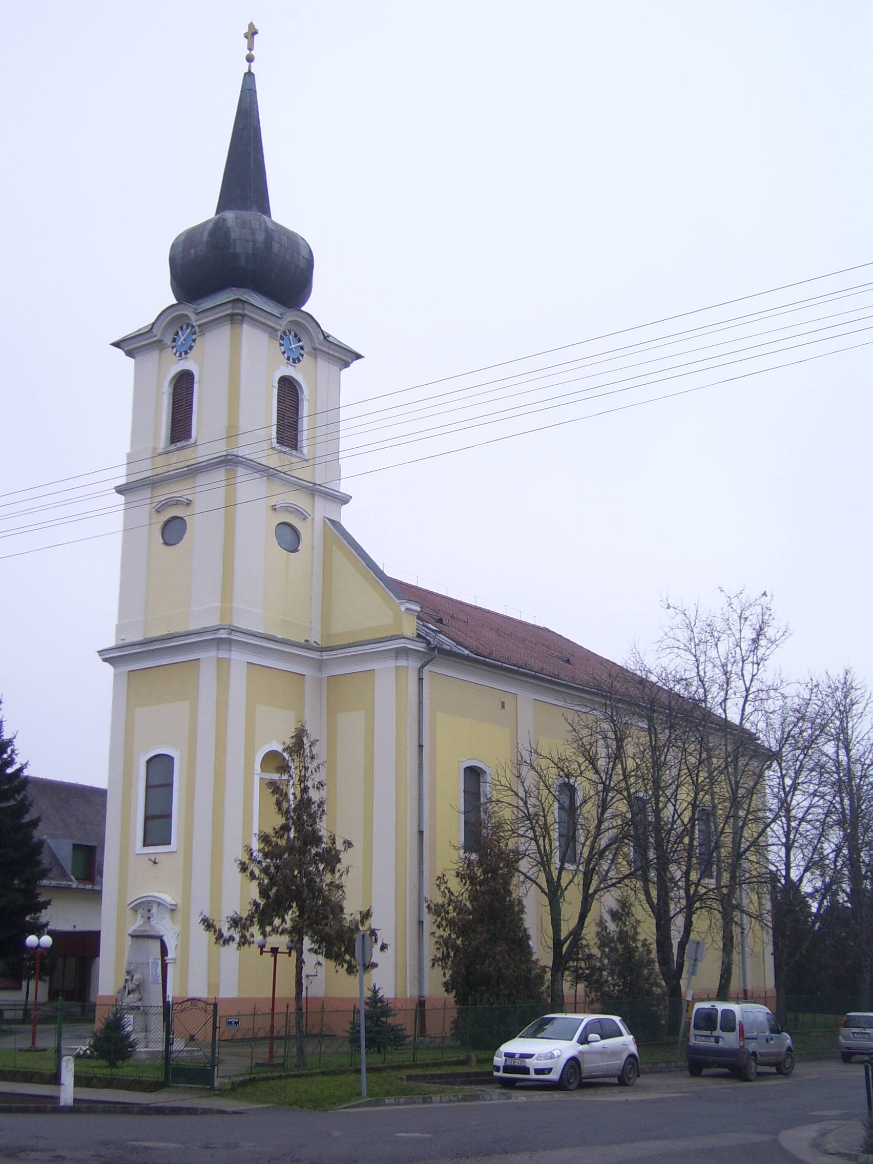 Roman catholic church in Dabas This is a photo of a monument in Hungary. Identifier: 6989